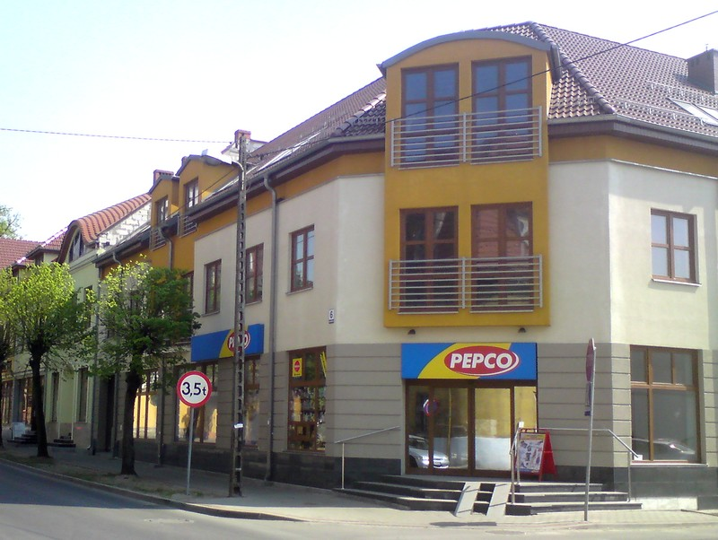 Buildings near Mickiewicz street in Gryfice (Poland)